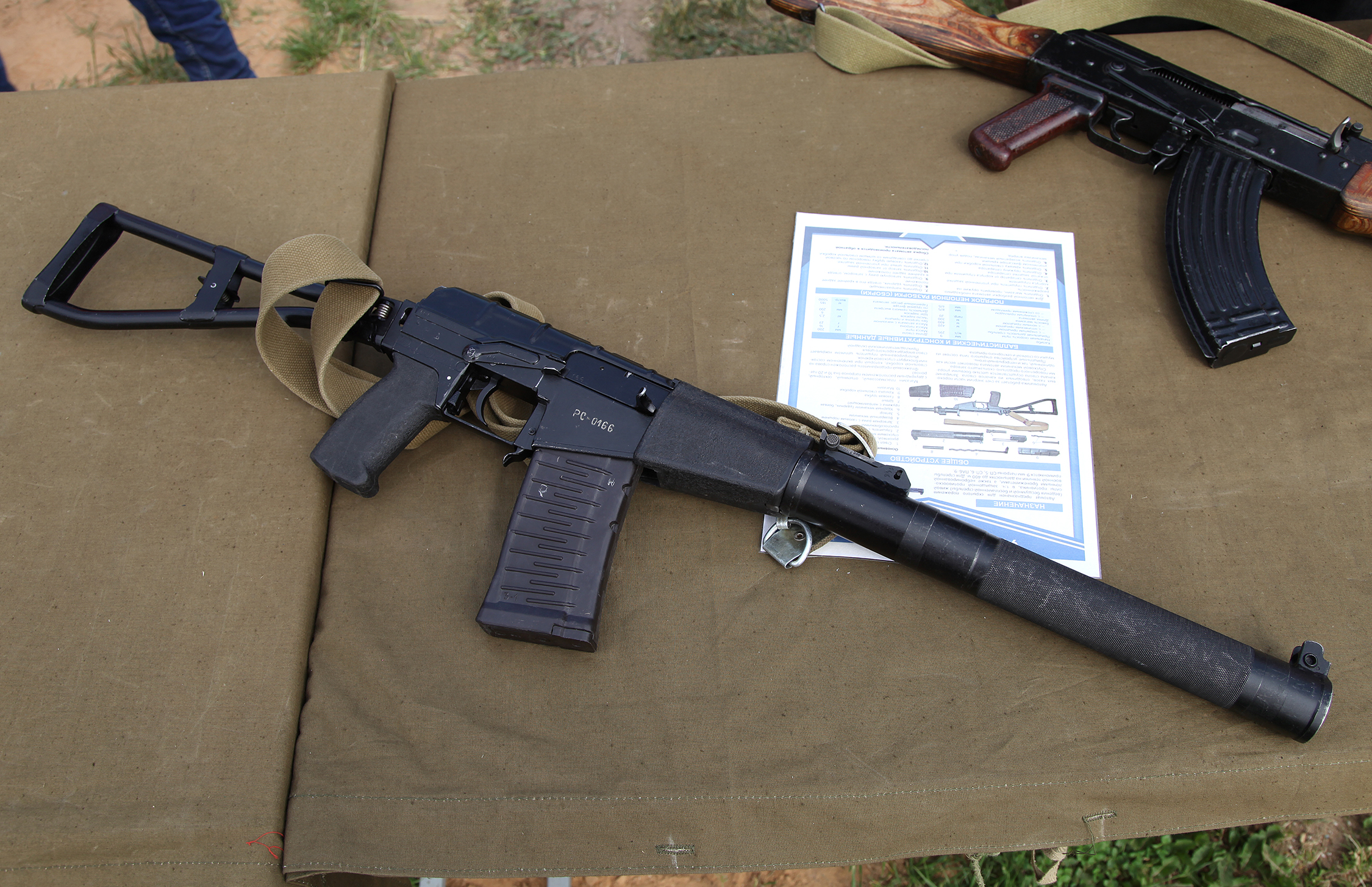 AS Val assault rifle